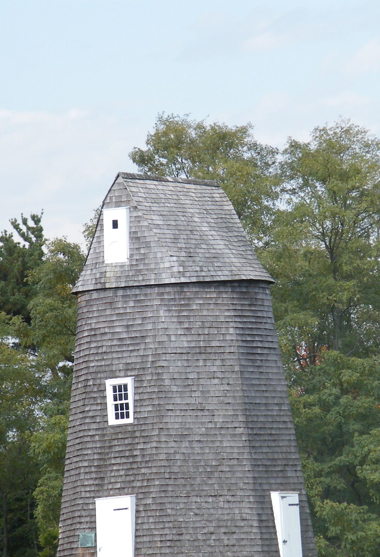 Shelter Island Windmill under repair